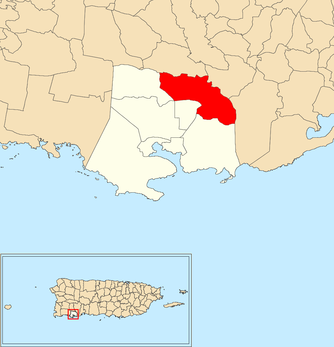 Susúa Baja, Guánica, Puerto Rico locator map